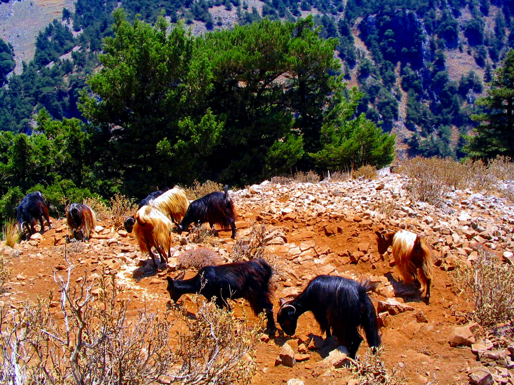 Scapegoats of Askifou-Highplain on Crete, Greece